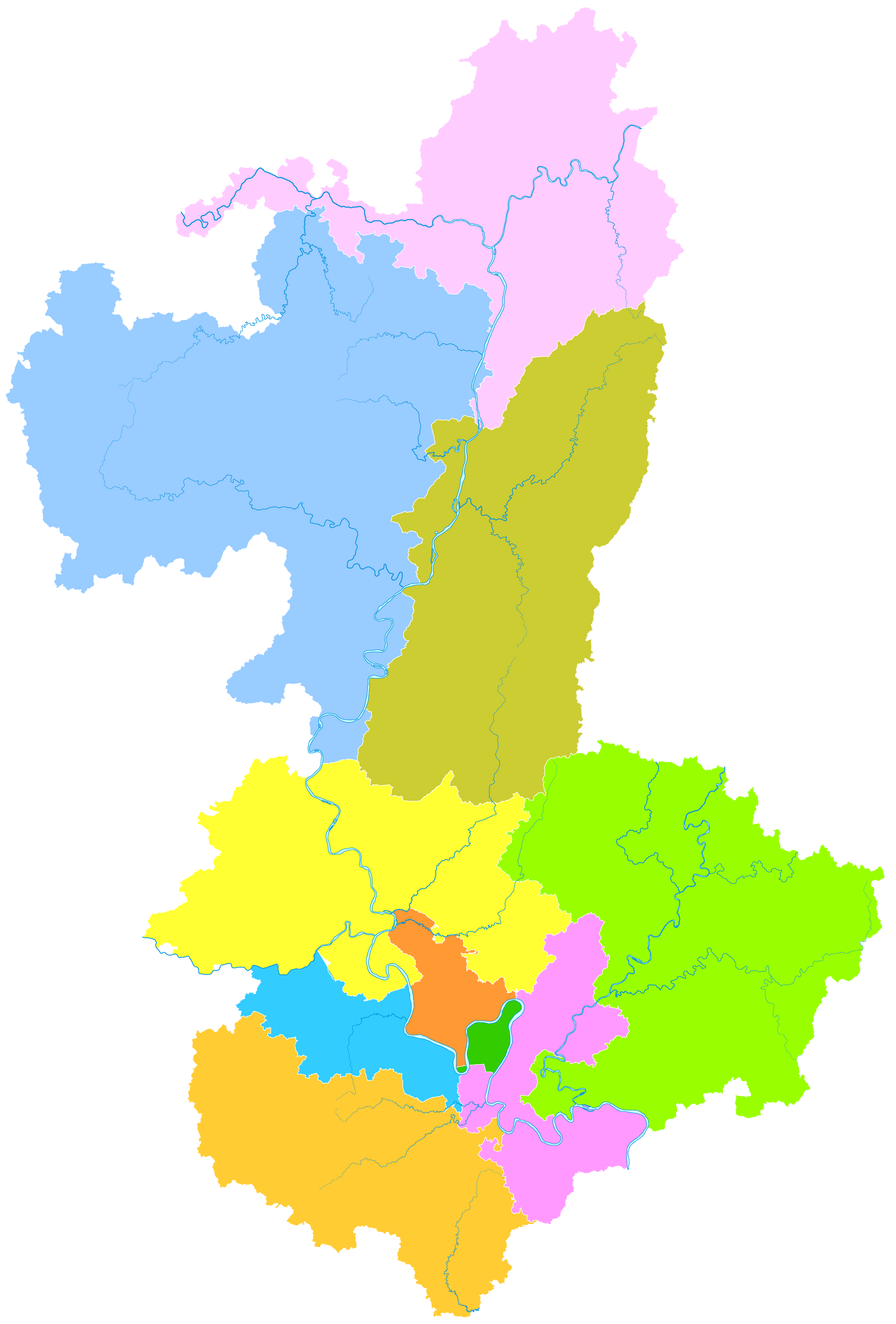 administrative divisions of Liuzhou City, Guangxi, China